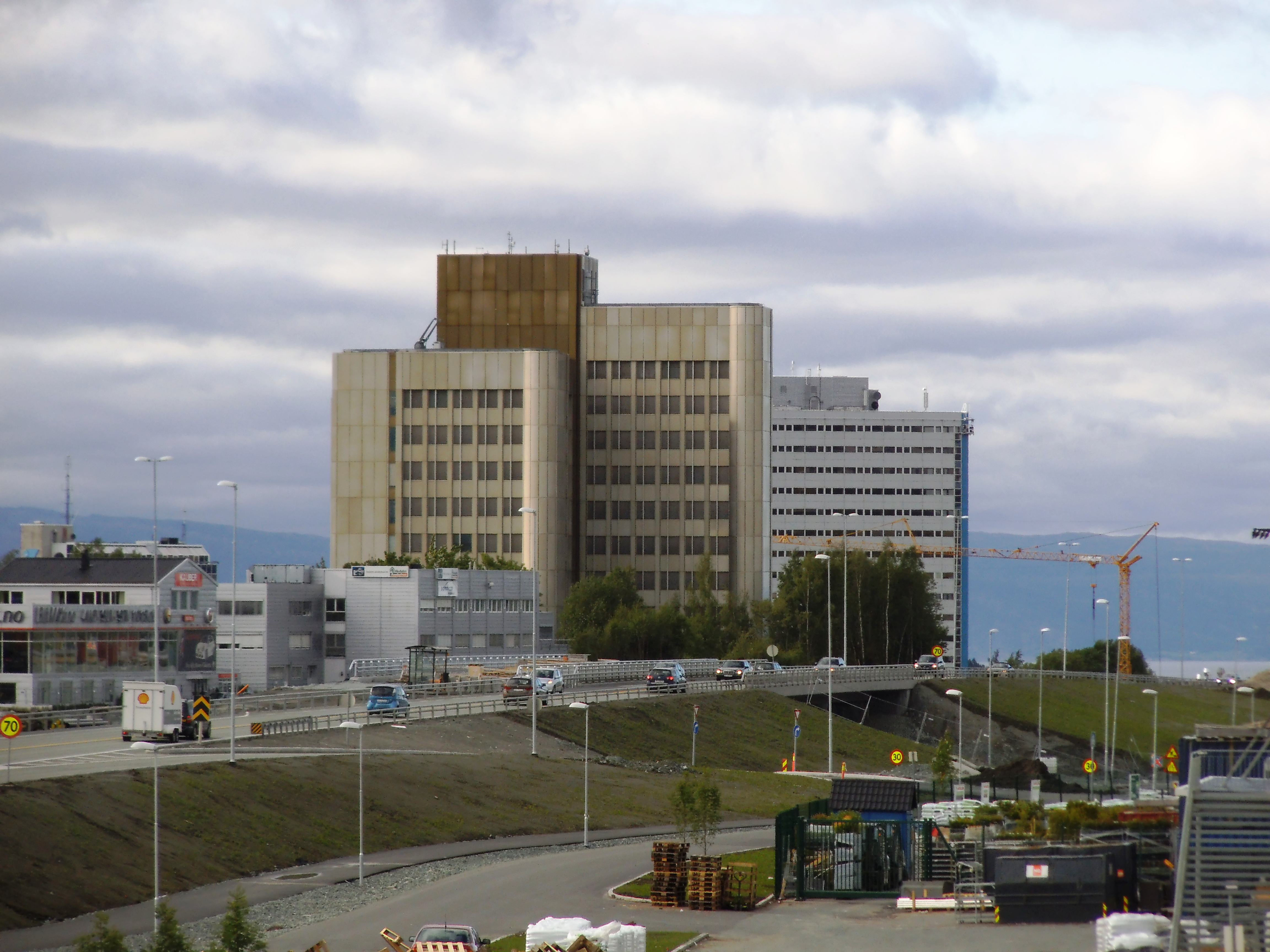 Fokus bank-bygget is an office complex that where originally the headquarter for a the bank Fokus Bank in Trondheim.